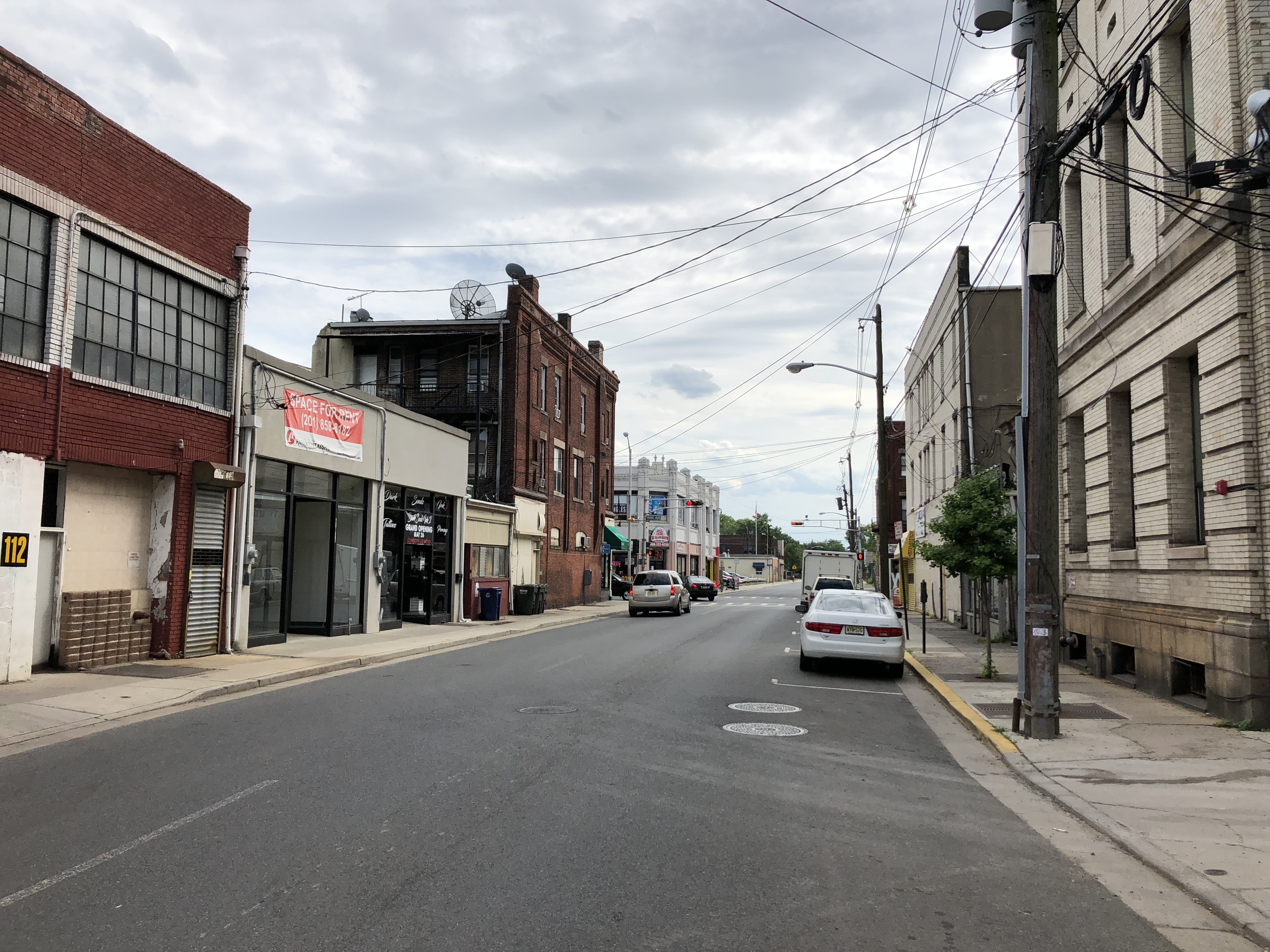 View west along New Jersey State Route 28 (Fourth Street) between Cleveland Avenue and Union County Route 531 (Park Avenue) in Plainfield, Union County, New Jersey